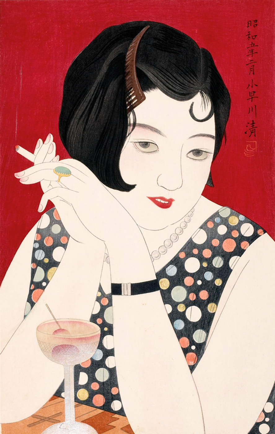 Kobayakawa Kiyoshi (1889-1948), Tipsy, Japan, Shöwa period, 1930, Color woodblock print, 51.3 x 30.5 cm, Gift of Philip H. Roach, Jr., 2001 (26926)